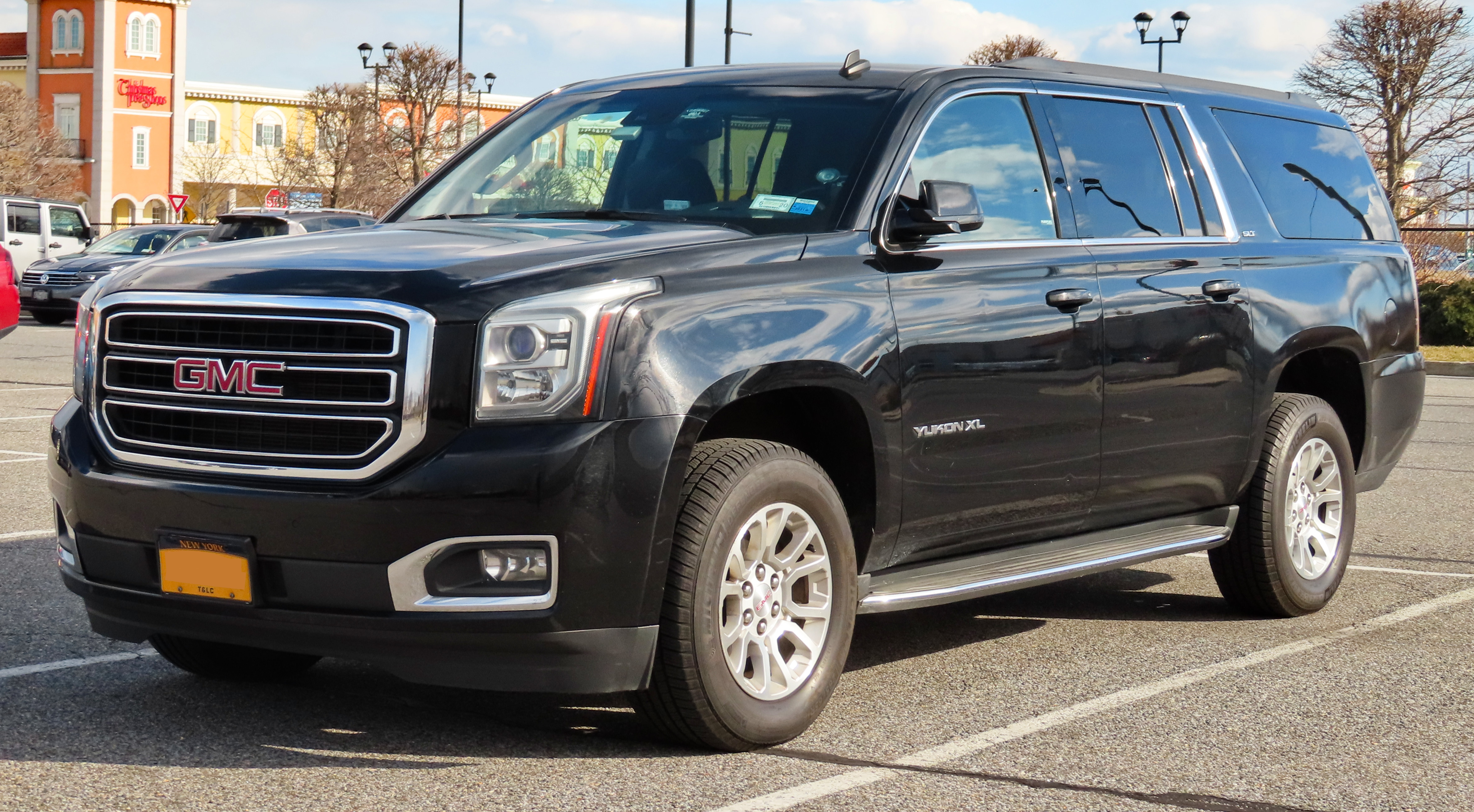 A 2015 GMC Yukon XL SLT photographed in Deer Park, New York, USA